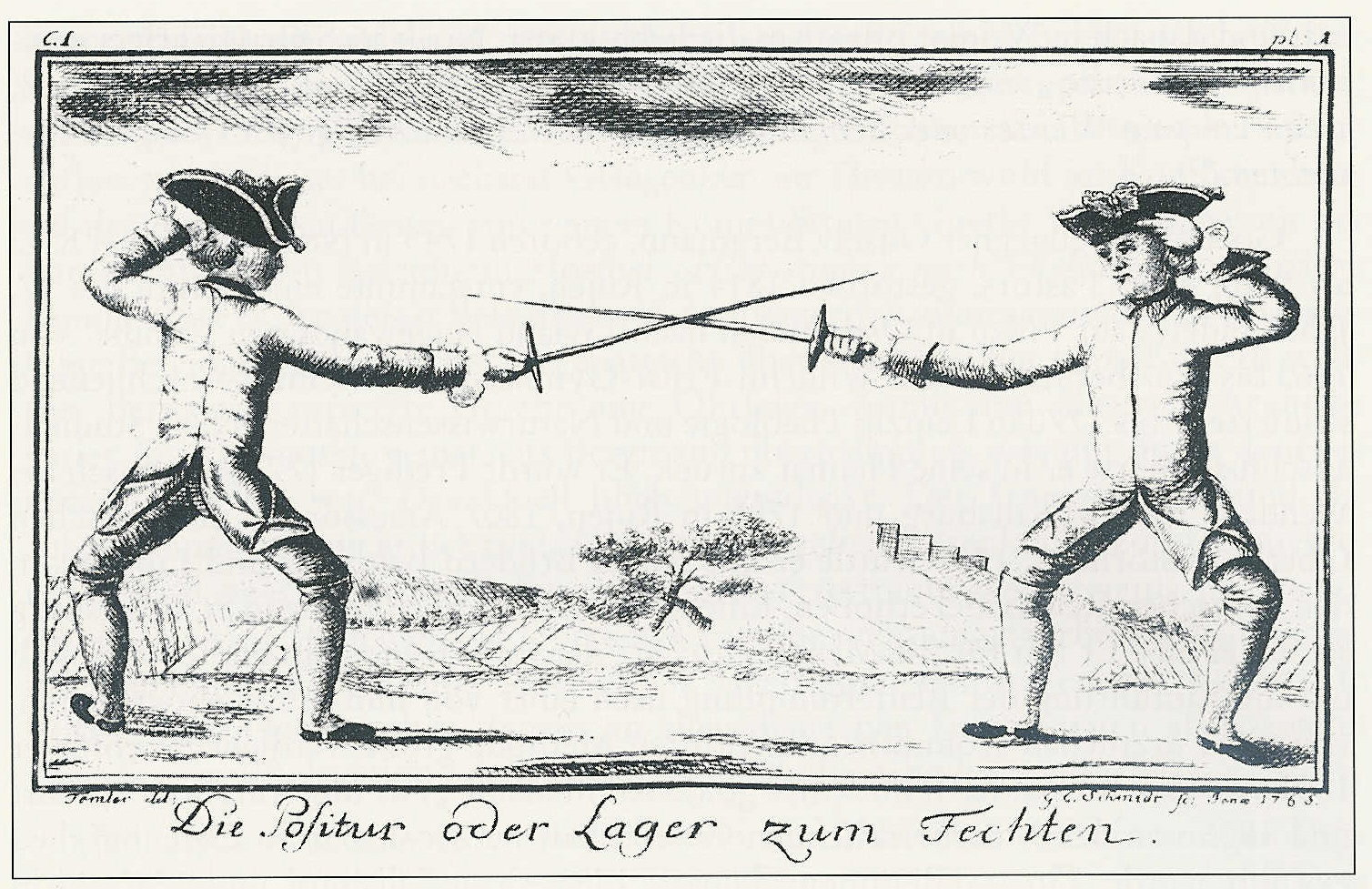 Fencing training in Weimar 1765, Die Positur oder Lager zum Fechten, Siegmund Carl Friedrich Weischner, Fechtmeister am Gymnasium in Weimar, posiert mit einem Schüler (Gustav Bergmann?) für eine Abbildung in seinem Fechtlehrbuch von 1765